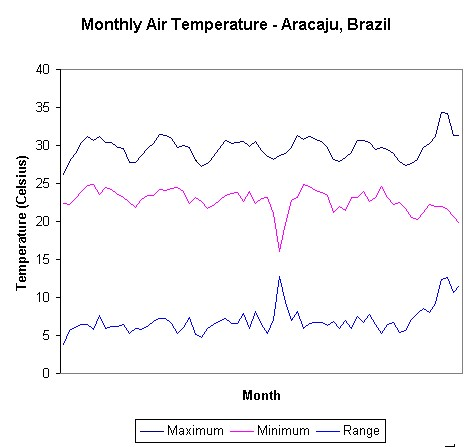 Average maximum, minimum and range of monthly air temperatures recorded in Aracaju, state of Sergipe, Brazil, between January 2001 and July 2006. Produced by Renato M.E. Sabbatini, based on numerical data by the weather station of the National Meteorological Institute. Uploaded by the author, reproduced with permission.